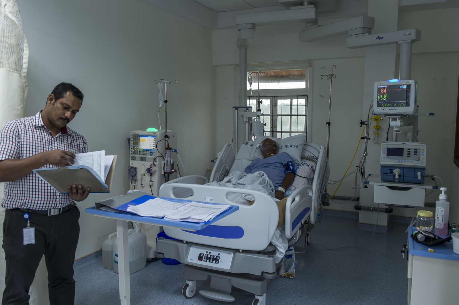 One of the hospital staff is reviewing the medical charts of a patient in the ICU.